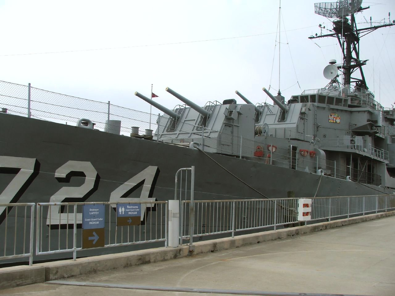 Where he proudly served